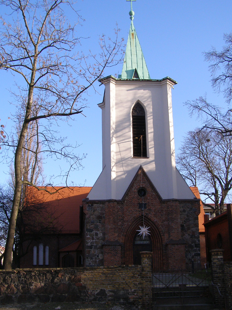 Village church in Berlin-Weißensee, Germany